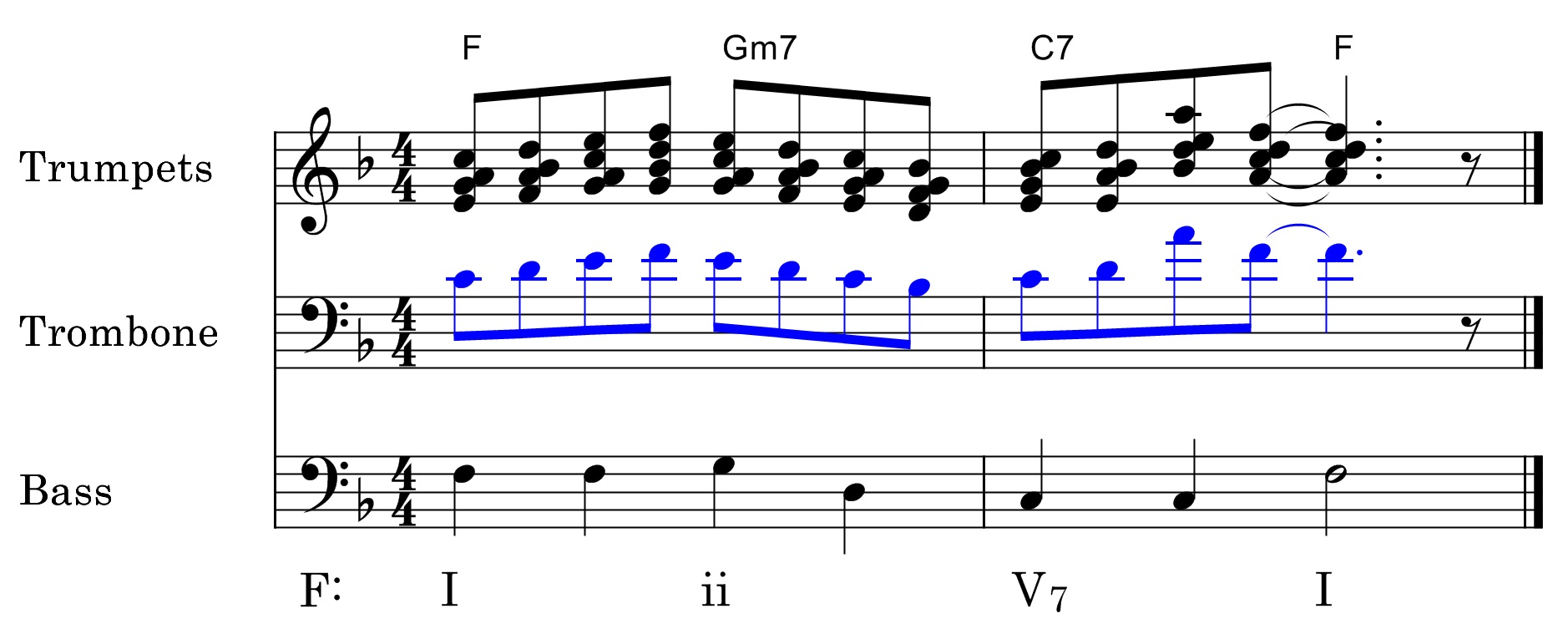 5-part 4 voice sectional harmony in close voicing. The melody is doubled an octave below.